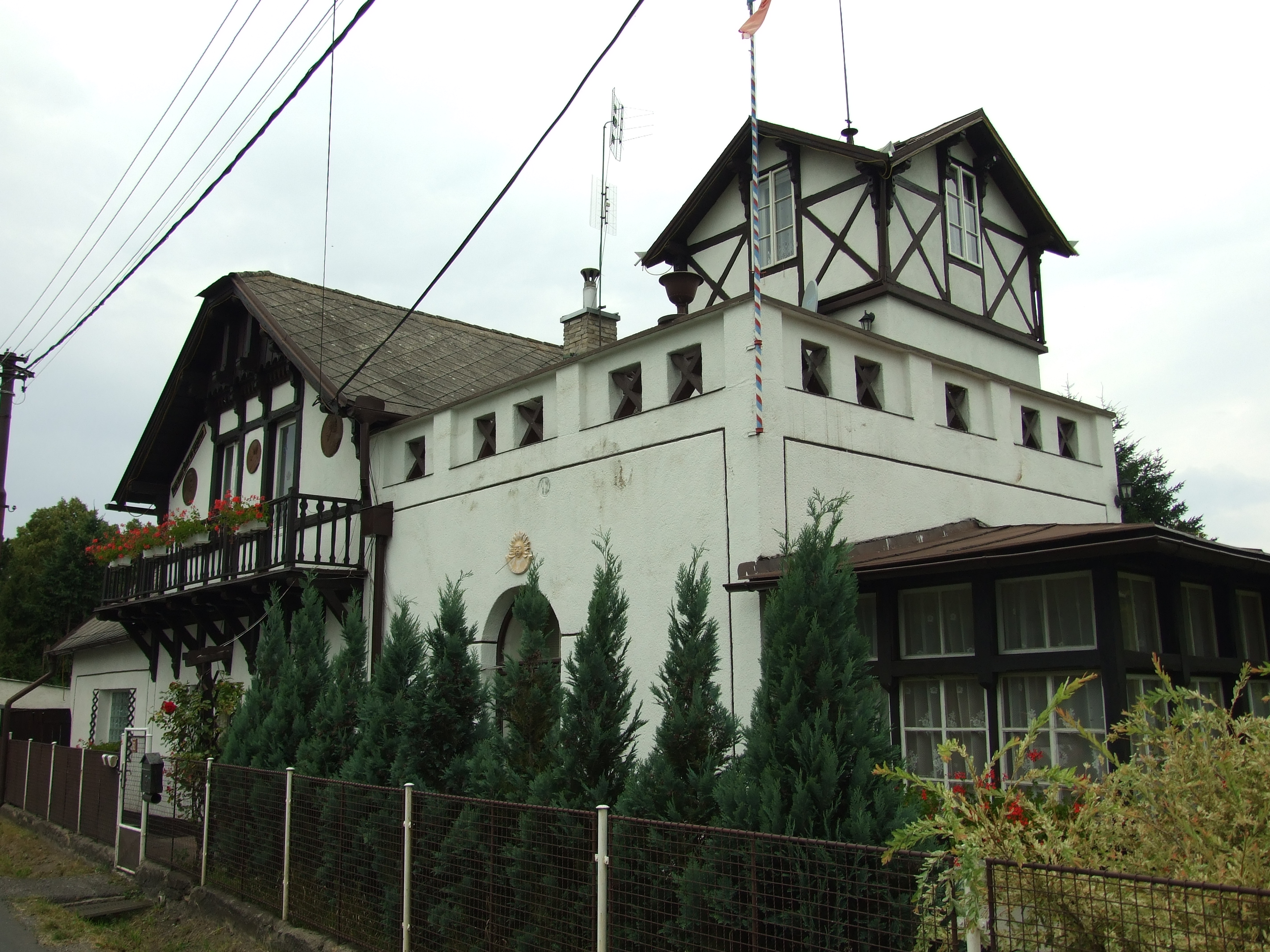 Village Svatá in Central Bohemian Region, CZ. The villa of Josef Scheiner.